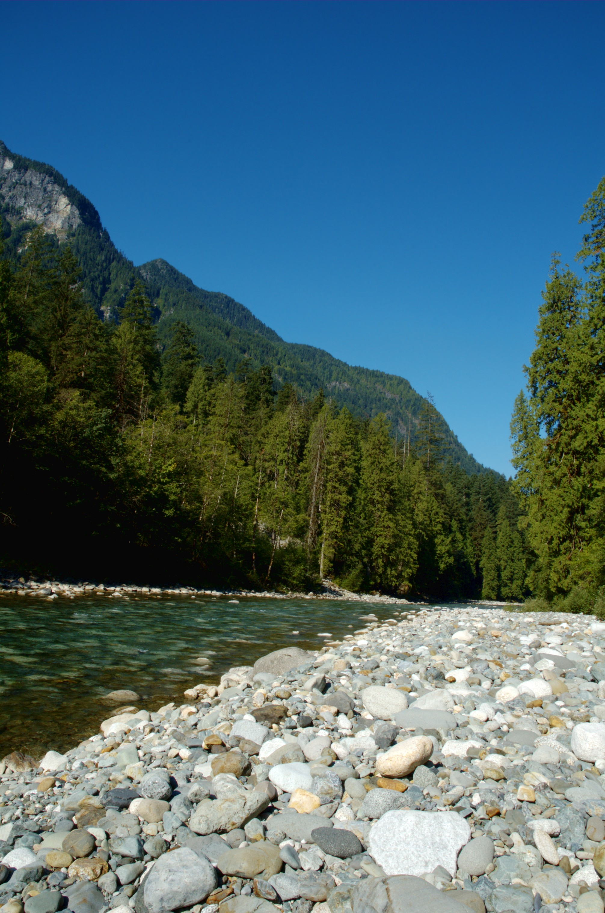 The Coquihalla River, near Hope, BC, Canada. Taken in August, 2005, with a Nikon D70 camera. More info available on its Flickr page. One can see the pebble and cobble gravel at the river side.